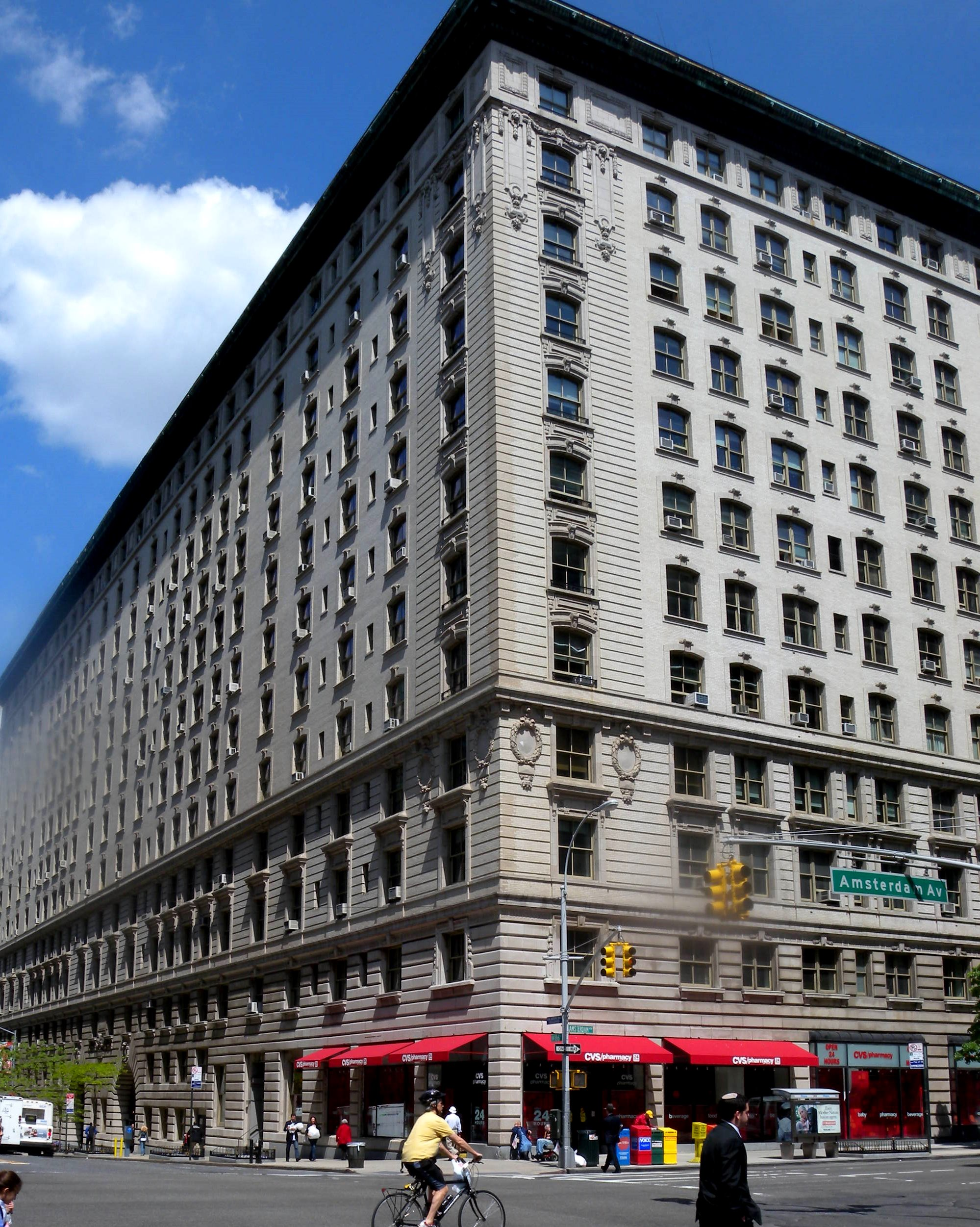 Looking northwest across 86th and Amsterdam at The Belnord on a mostly sunny midday. ZIP 10024.